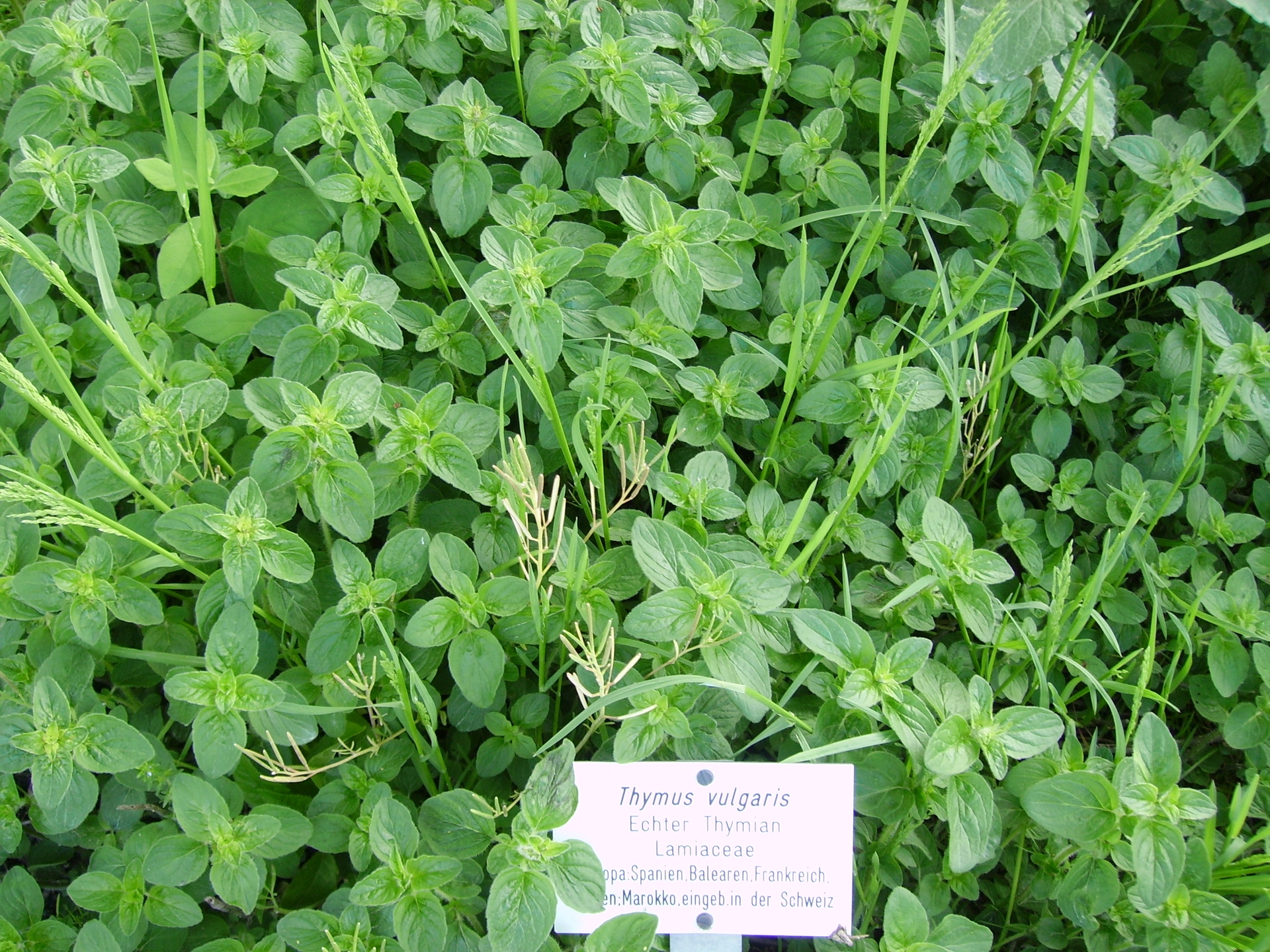 Common thyme (Thymus vulgaris)